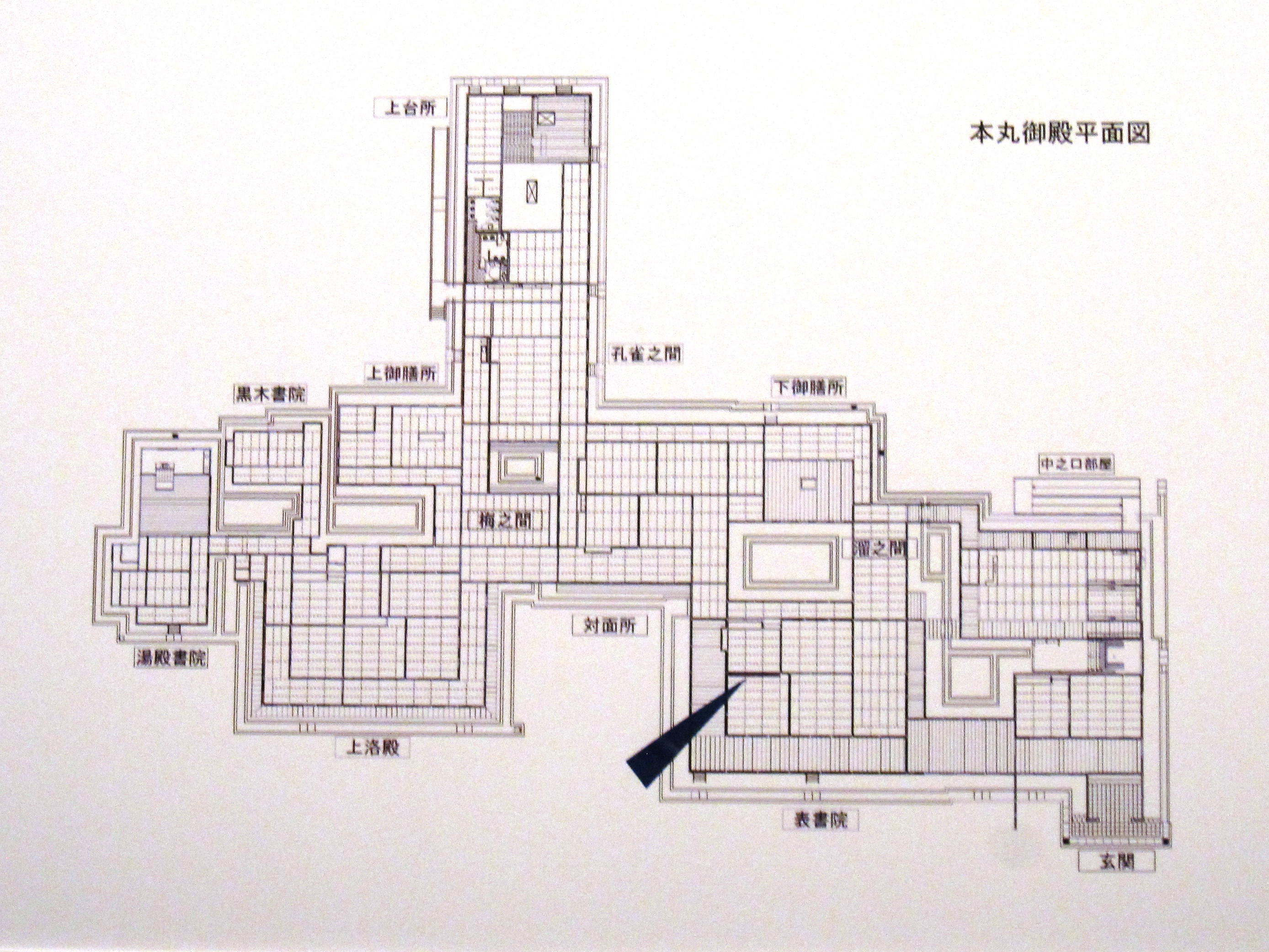 Screen from the Honmaru Palace of Nagoya Castle.